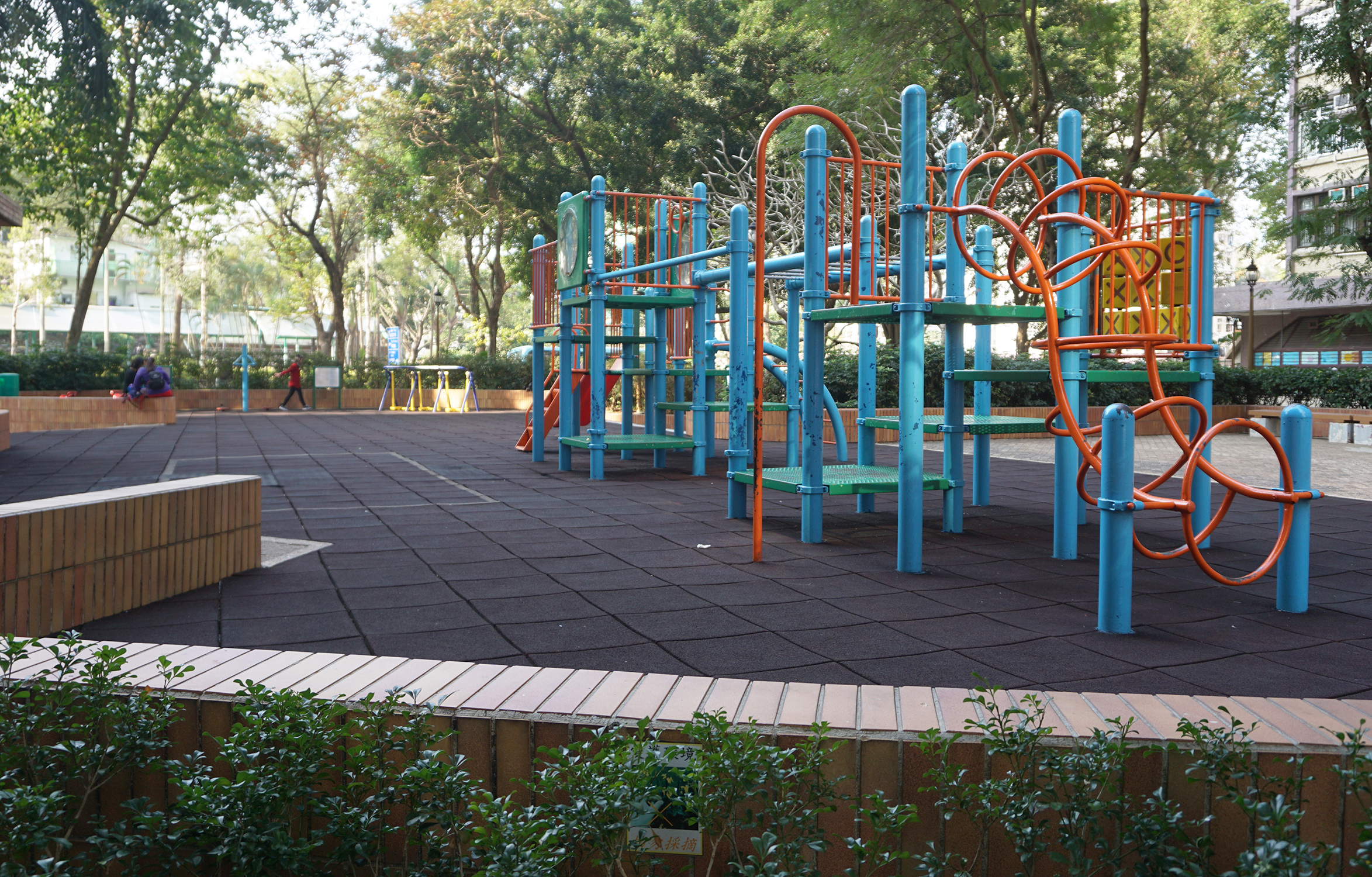 Yat Nga Court in Tai Po, Hong Kong.